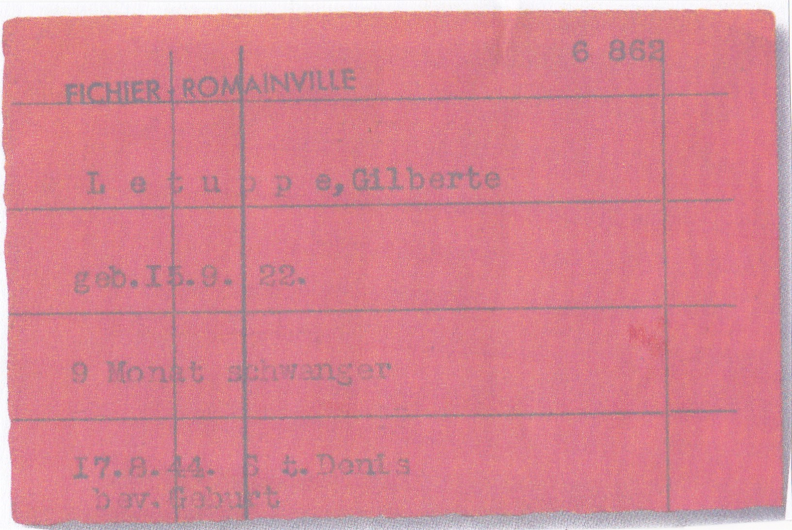 Gilberte Letuppe. (Fort de Romainville's records, numbered 6 862)